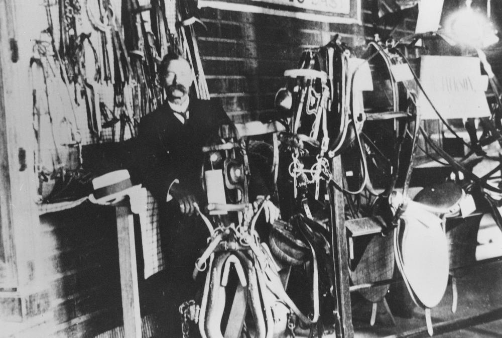 Saddler William M. Jackson with his display of saddlery and leather work in the pavillion at the Stanthorpe Agricultural Show, 1920 William Jackson's saddlery shop is in Maryland Street. (Description supplied with photograph.).